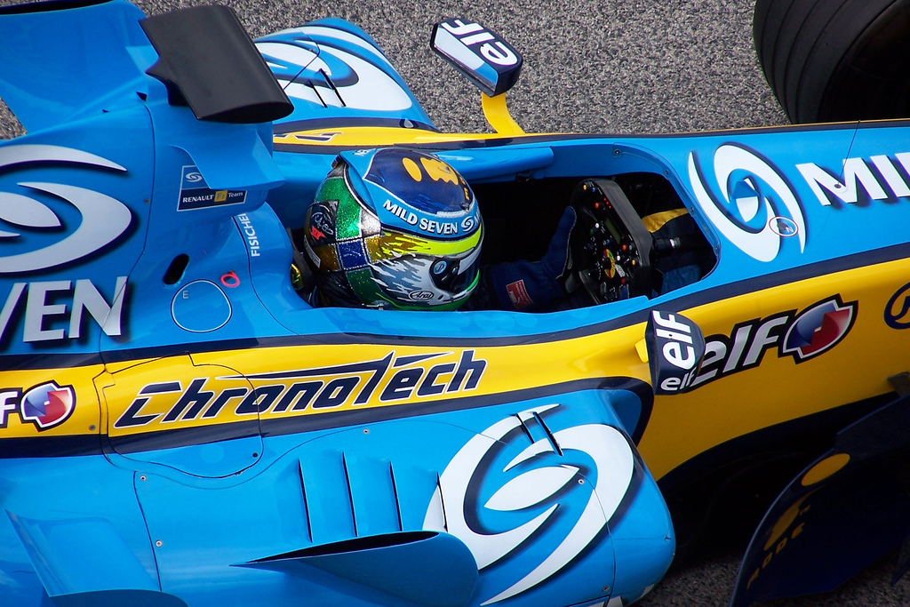 Giancarlo Fisichella testing for Renault F1 at Valencia in February 2006.